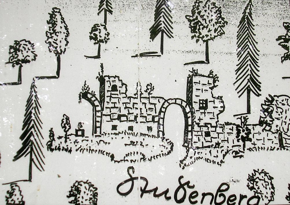 Stufenberg castle (Baunach, Landkreis Bamberg, Upper Franconia, Bavaria, Germany). View oft the ruin (Map by Franz Jakob Klietsch, 1770)